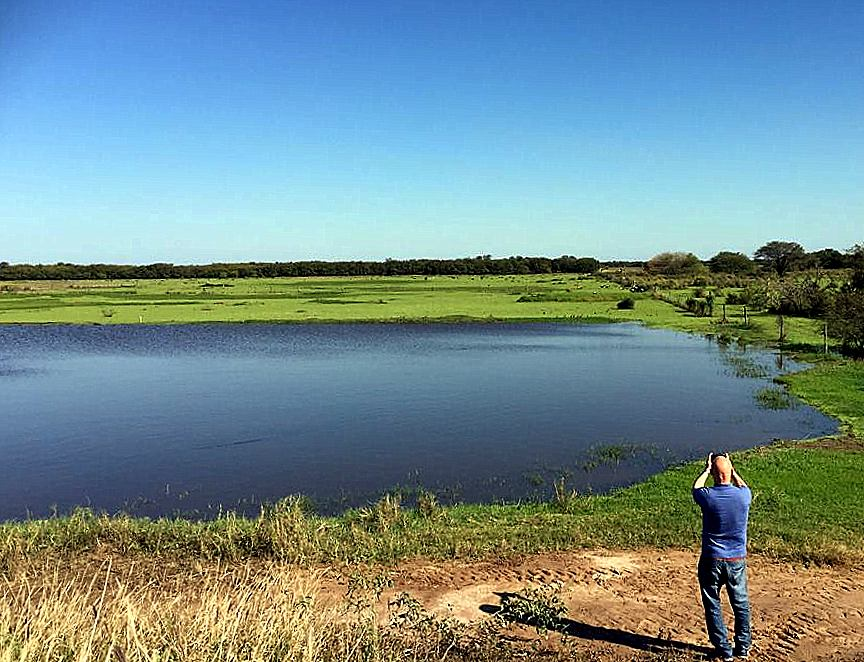 Tajamar at estancia Iparoma in Filadelfia, Paraguay.